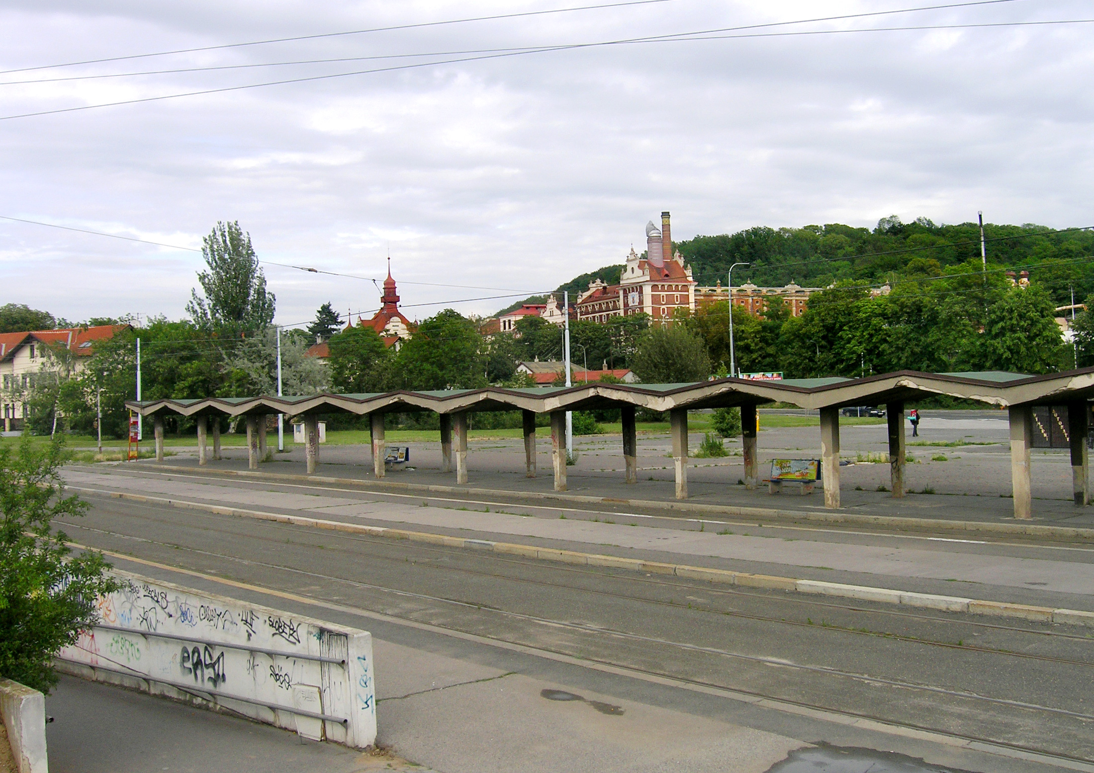 Tram loop by Braník railway station at Braník, Prague, with Braník brewery at the background